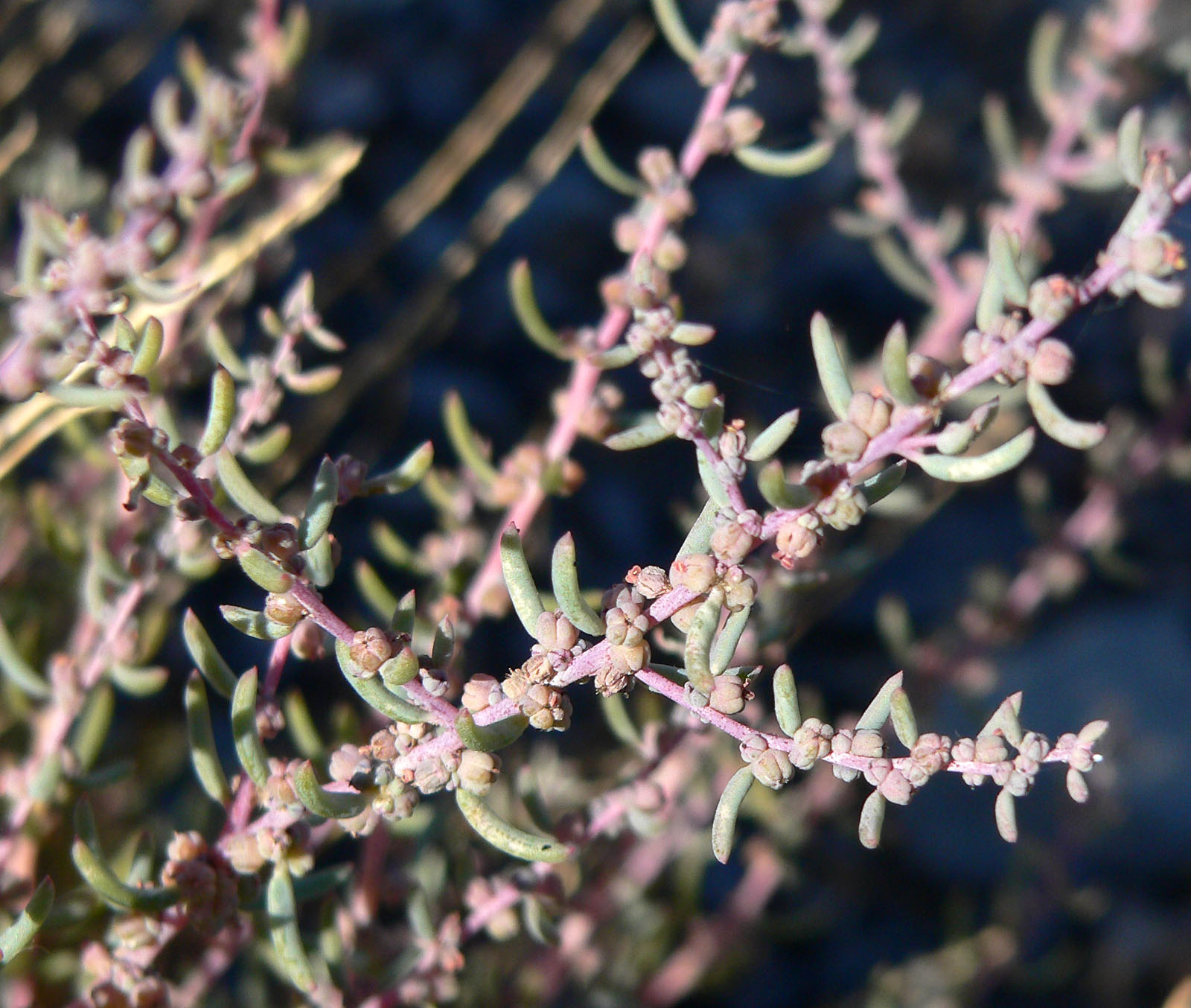 Suaeda nigra at Point of Rocks Springs, Ash Meadows National Wildlife Refuge, southern Nevada